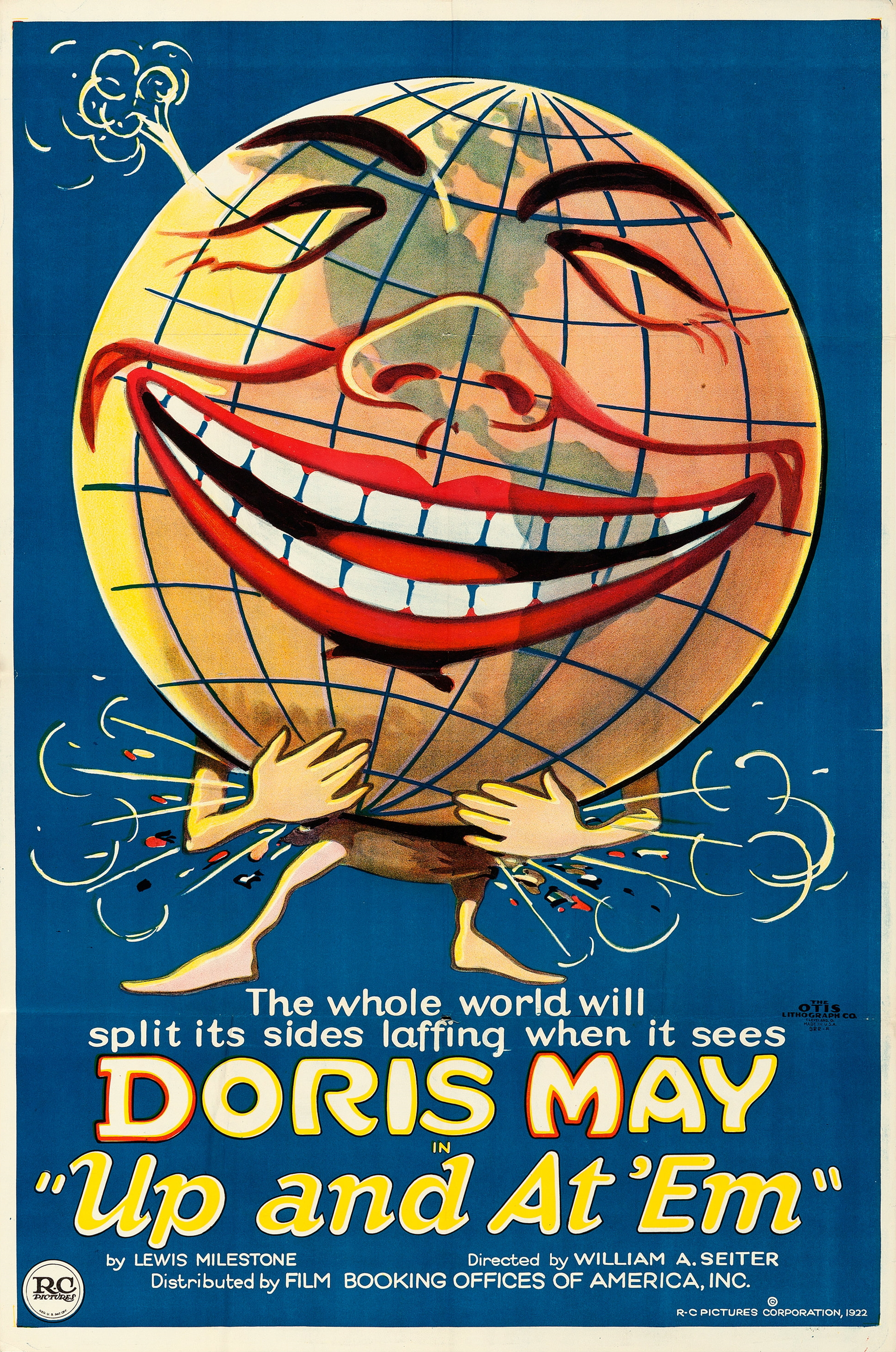 This is an poster for the 1922 American silent romantic-comedy film Up and at 'Em.